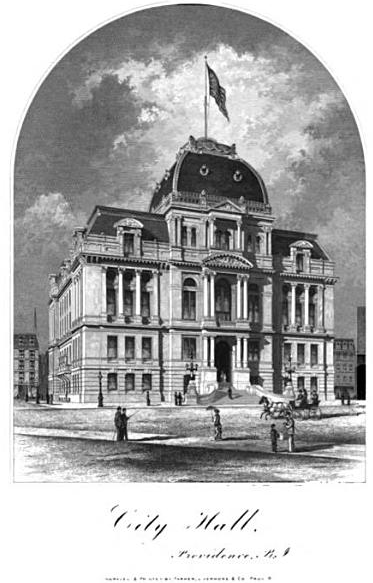 From "The City Hall, Providence: Corner-stone Laid, June 24, 1875. Dedicated, November 14, 1878" Published 1881 by the City Council of Providence, Rhode Island